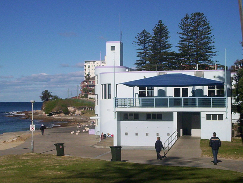 Cronulla surf life savers club on Cronulla Beach. I took the photo.